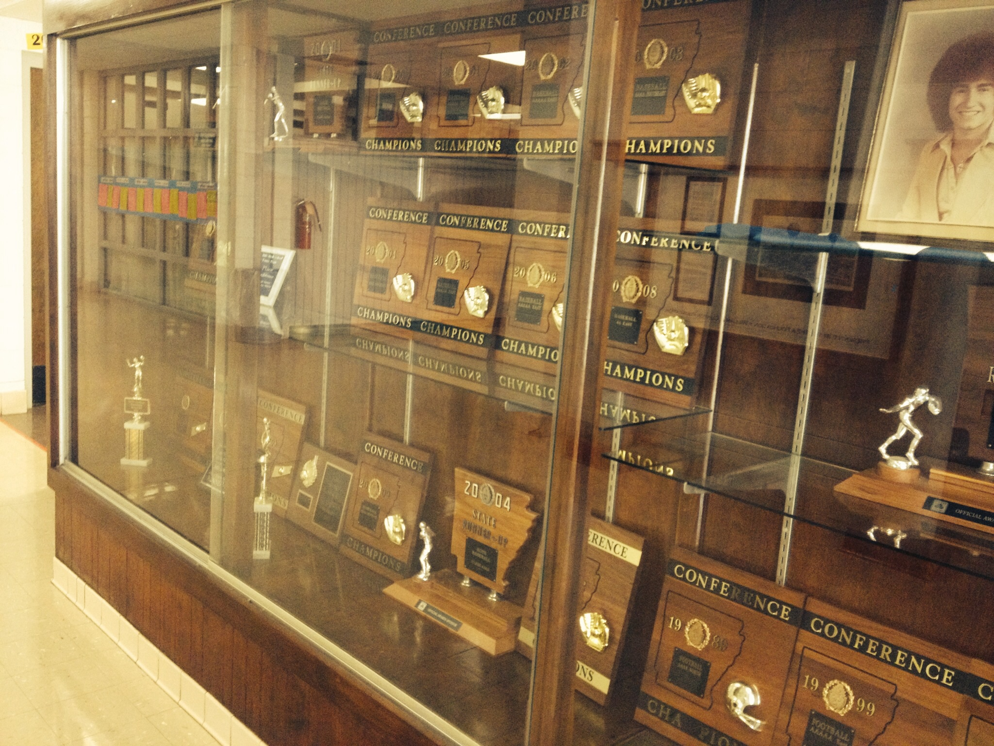 Trophy case located within Sylvan Hills High School in Sherwood, Arkansas.